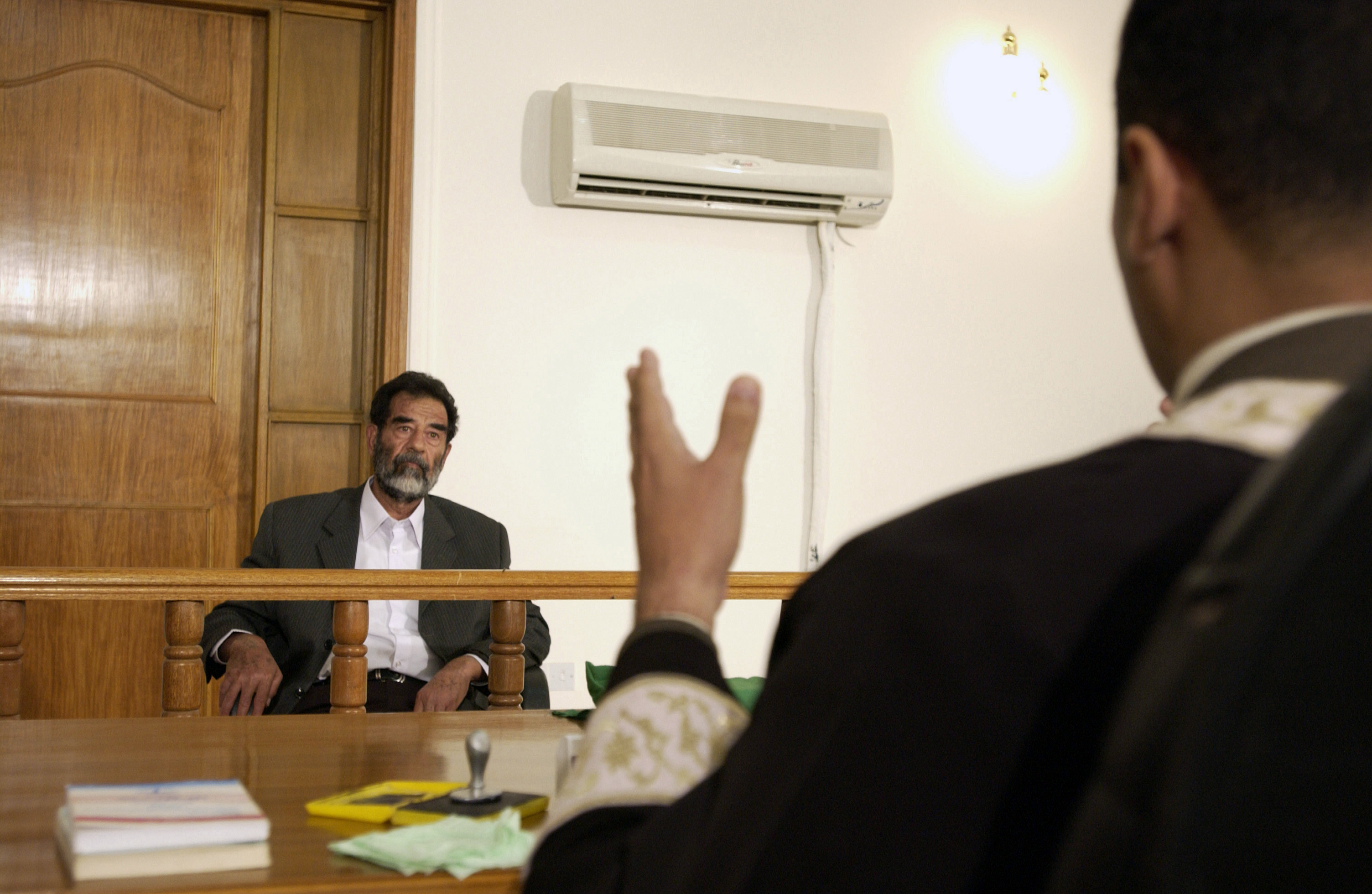 Former and deposed President of Iraq, Saddam Hussein, sits before an Iraqi judge at a courthouse in Baghdad, Iraq, where he has his initial interview to inform him of what he is being investigated for and his legal rights read to him.